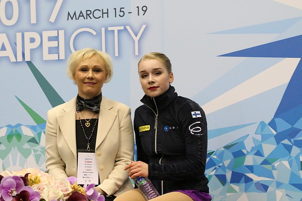 Viveca Lindfors and Virpi Horttana at the 2017 Junior World Championships